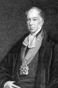 Richard Whately, (February 1, 1787 – October 8, 1863), English philosoph